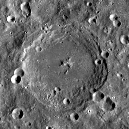 Poynting lunar crater - LROC image